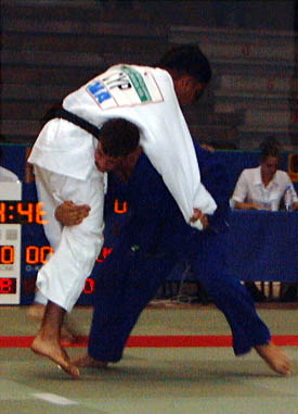 Kata guruma or fireman's carry.